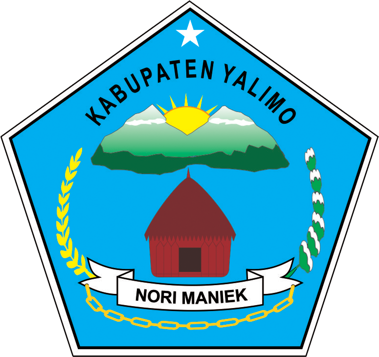 Coat of arms of Yalimo Regency